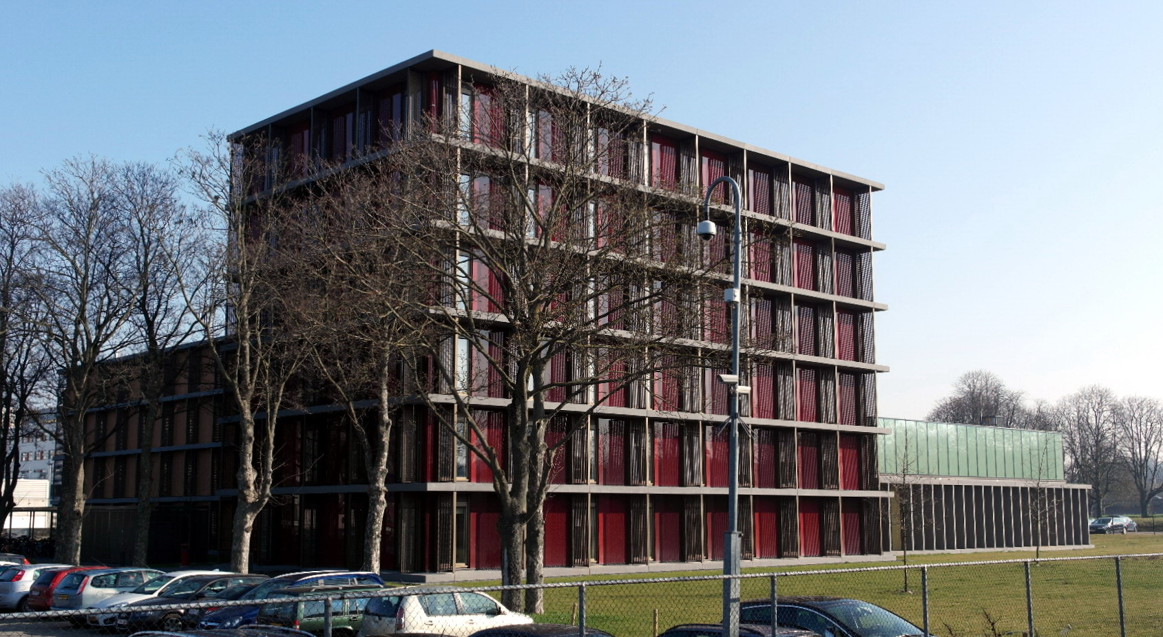 Maastricht, the Netherlands. View of the Brains Unlimited building, part of the University of Maastricht's Health Campus in the district of Randwyck.